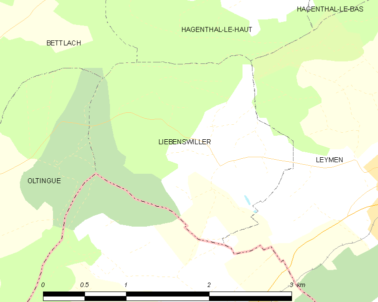 Map of French municipality